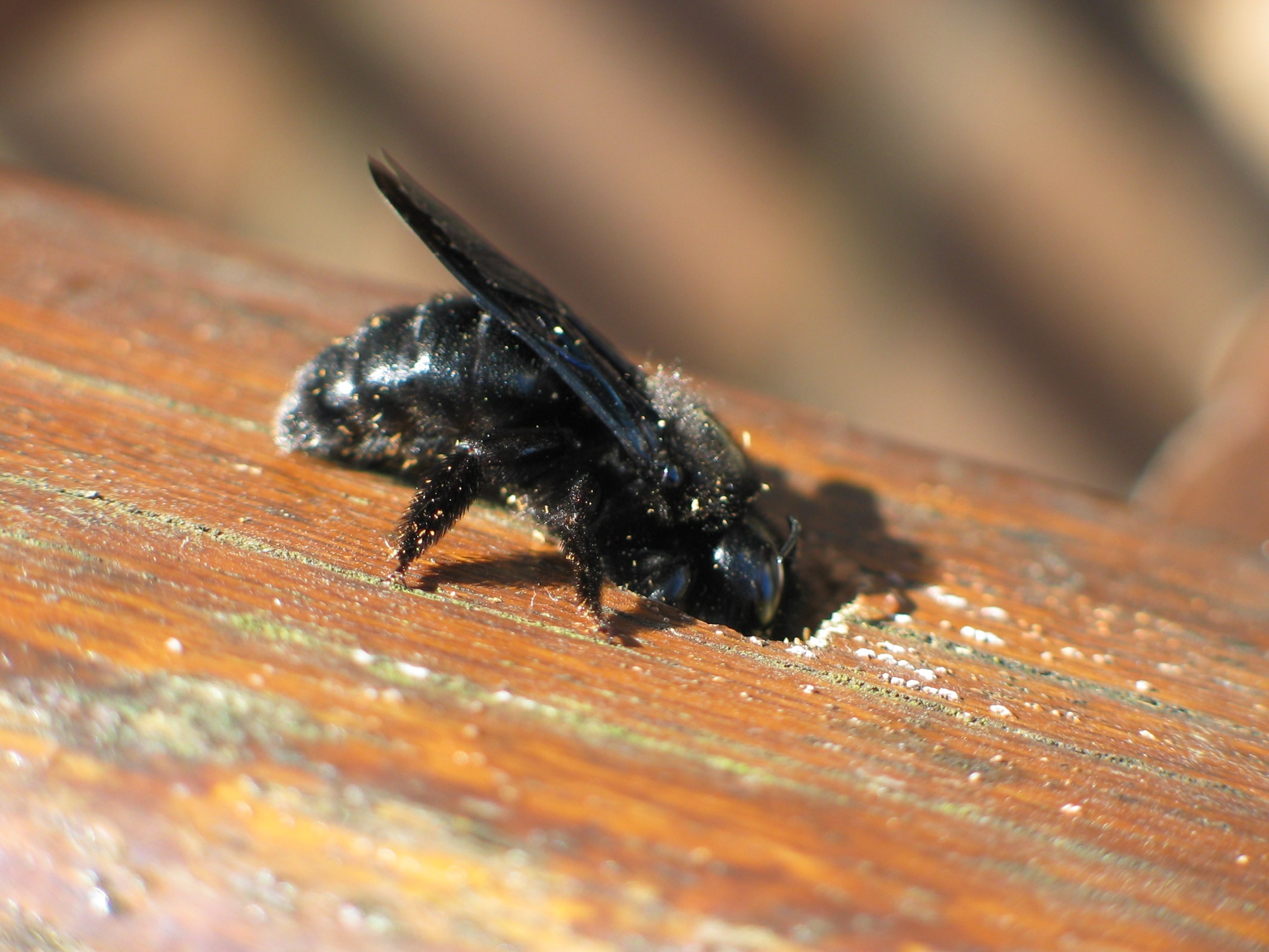 Carpenter bee